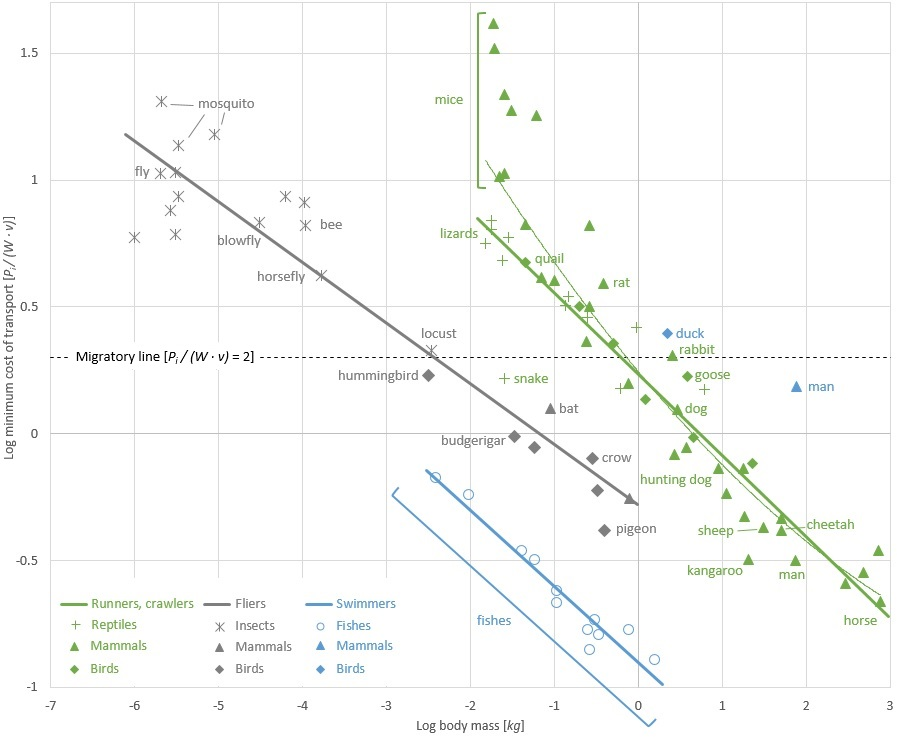 Minimum cost of transport comparison Swimming fish achieve the most efficient form of locomotion per distance, followed by flying animals. Walking is the most insufficient. All are grouped around a linear trend line, except for mice. Metabolic rate is expressed as power input Pi. Divided by speed v and body weight W it constitutes the cost of transport (COT). Based on: Vance Tucker (1975): 'The Energetic Cost of Moving About. Walking and running are extremely inefficient forms of locomotion. Much greater efficiency is achieved by birds, fish—and bicyclists' in American Scientist, Volume 63, No. 4, p. 413-419